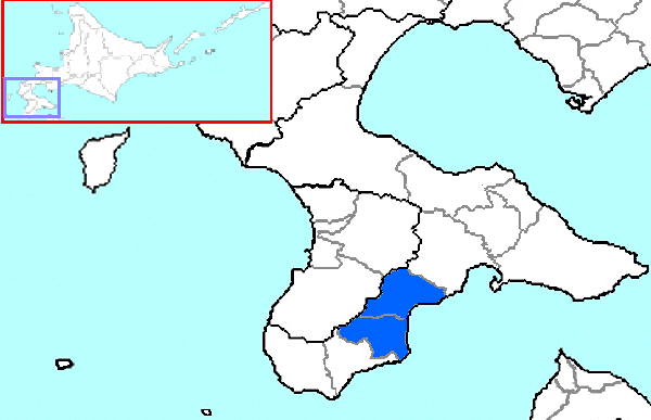 The location of Kamiiso District in Oshima Subprefecture, Hokkaido Prefecture, Japan.